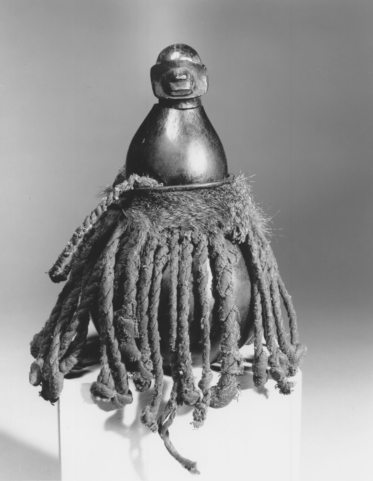 Gourd containers like this stored medicinal substances used at various curing and initiation ceremonies. The wooden stopper, which illustrates Zaramo artists' tendencies toward abstraction, marked and protected the contents. The gourd itself was associated with fertility, probably because of the many seeds it contained.